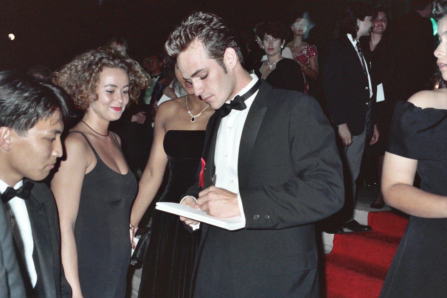 Luke Perry signs an autograph at the 1991 Emmy Awards. NOTE: Permission granted to copy, publish, broadcast or post any of my photos, but please credit "photo by Alan Light" if you can. Thanks. Scanned from the original 35MM film negative.